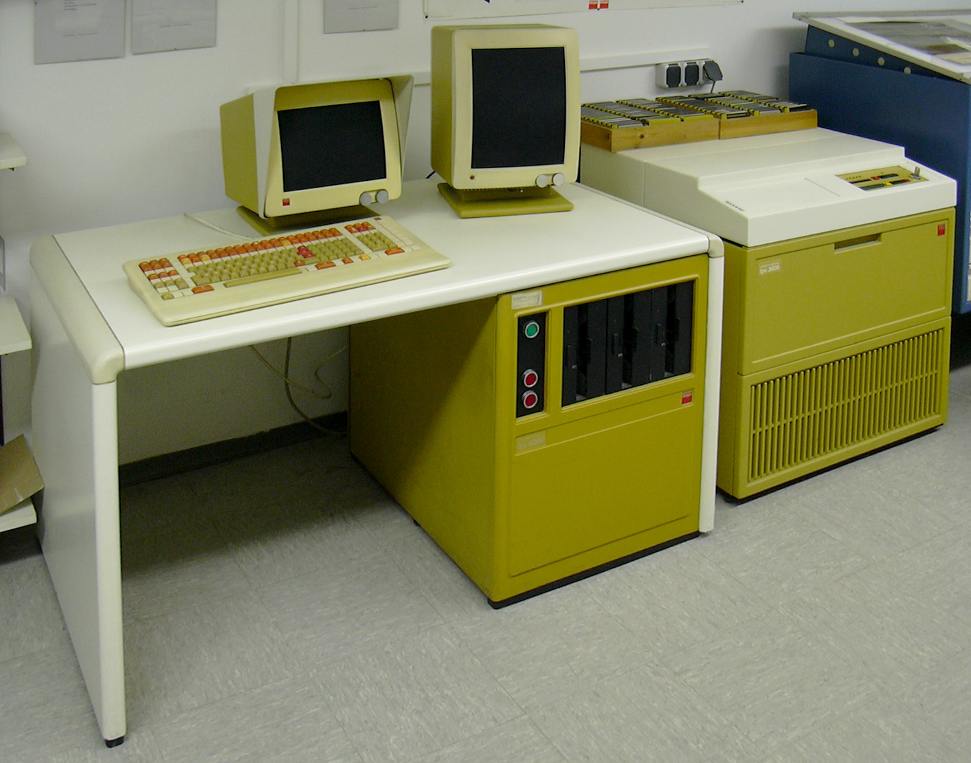 Berthold fotosetting units tps 6300 and tpu 6308